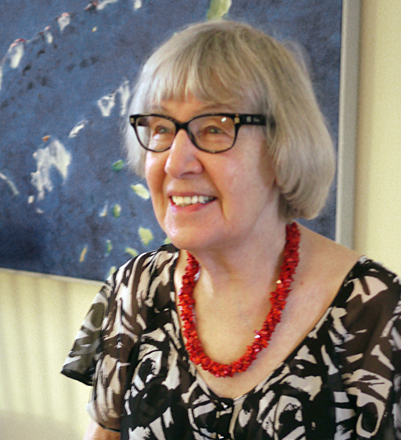 Candid photograph of Canadian artist Gathie Falk. December 2010.